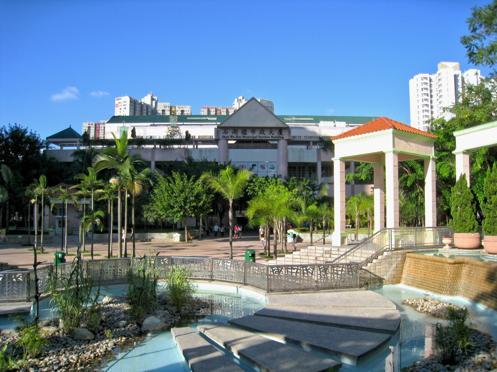 Shek Wu Hui Municipal Service Building